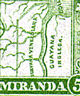 Postage stamp of Venezuela, map of Guiana, 5 centimos, 1896, fragment